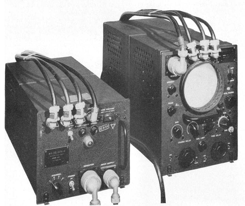 An image of the AN/APN-4 receiver set used with LORAN-A. This set was deliberately built to be similar to the UK's "Gee" system, which also consisted of two parts, as here. This allowed Gee and LORAN systems to be easily interchanged, simply by changing the receiver section.